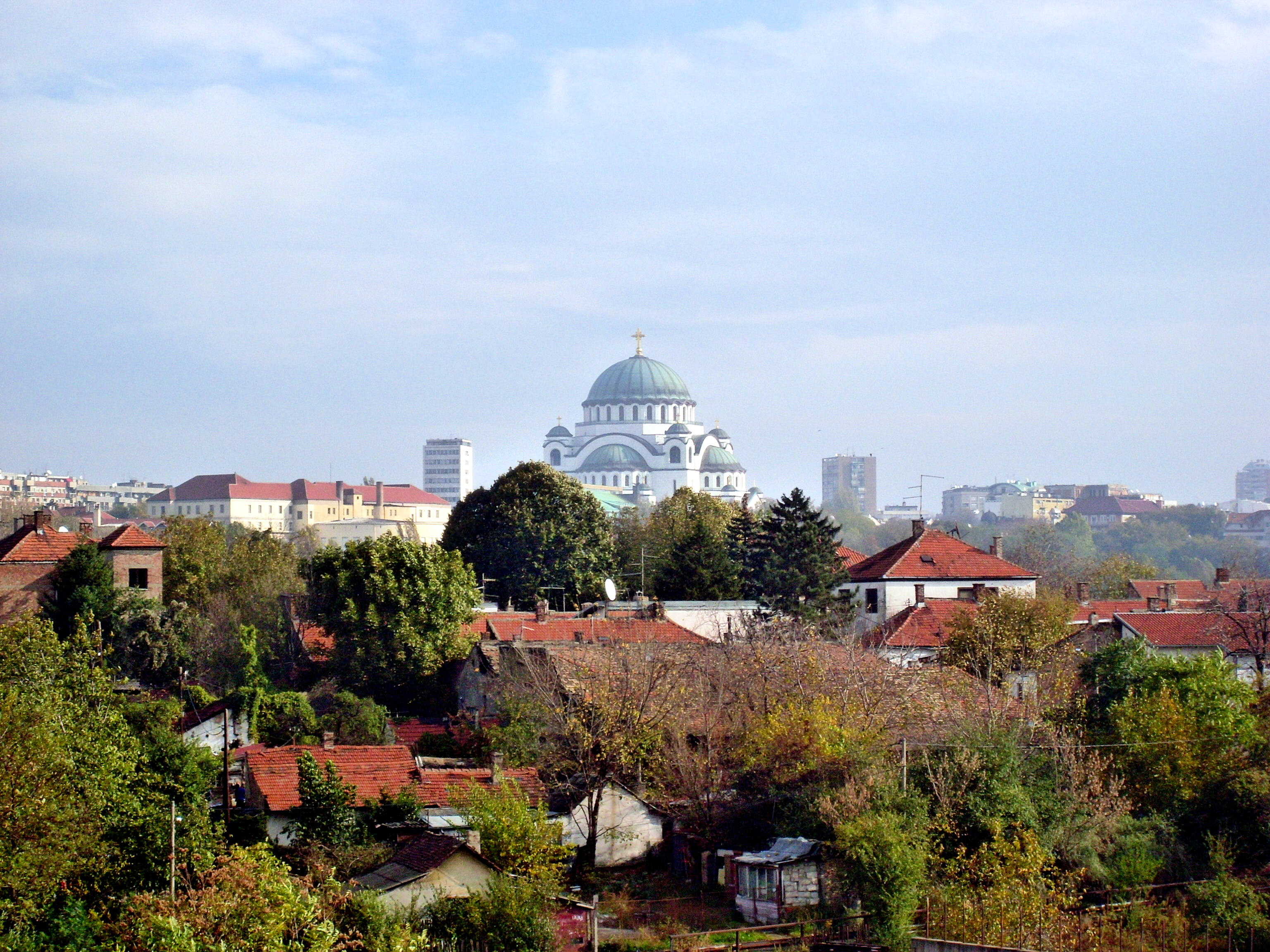 Vracar hill and Temple of St. Sava in Belgrade